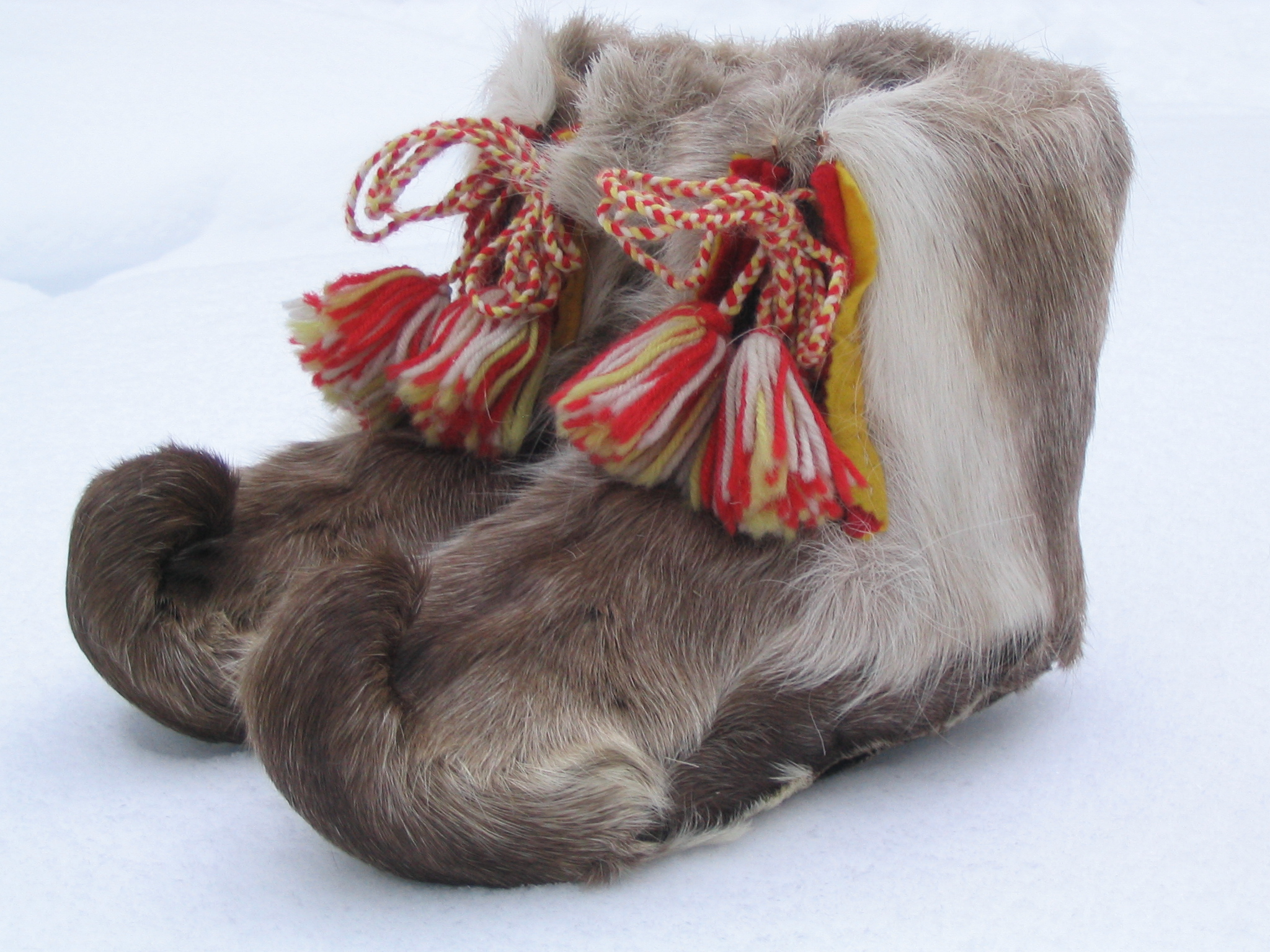 Traditional fur shoes of the lapps. They have been prepared reindeer leg skin.